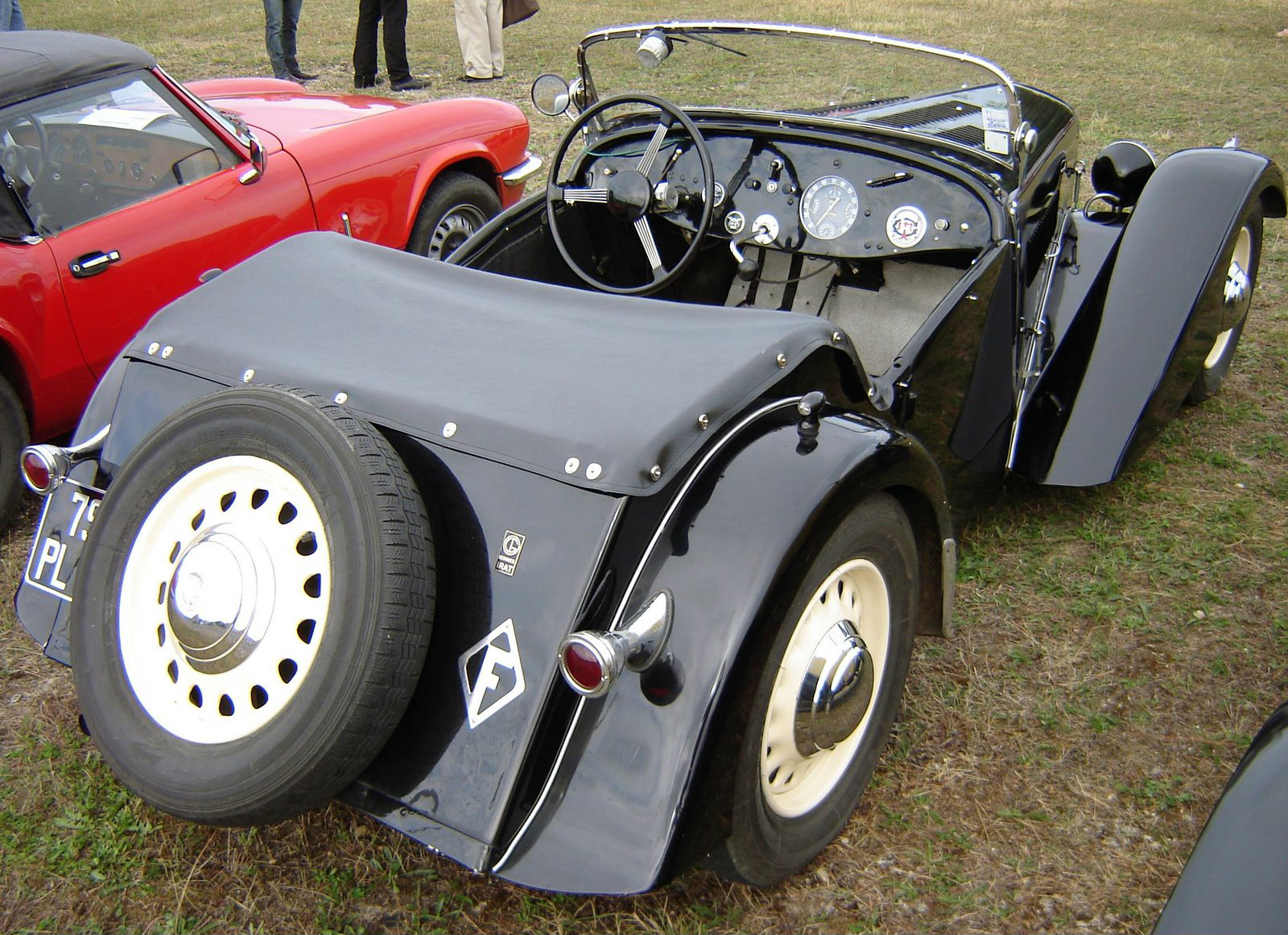 1938 Georges Irat ODU Roadster at the Autodrome de Linas-Montlhéry Montlhéry 2009.